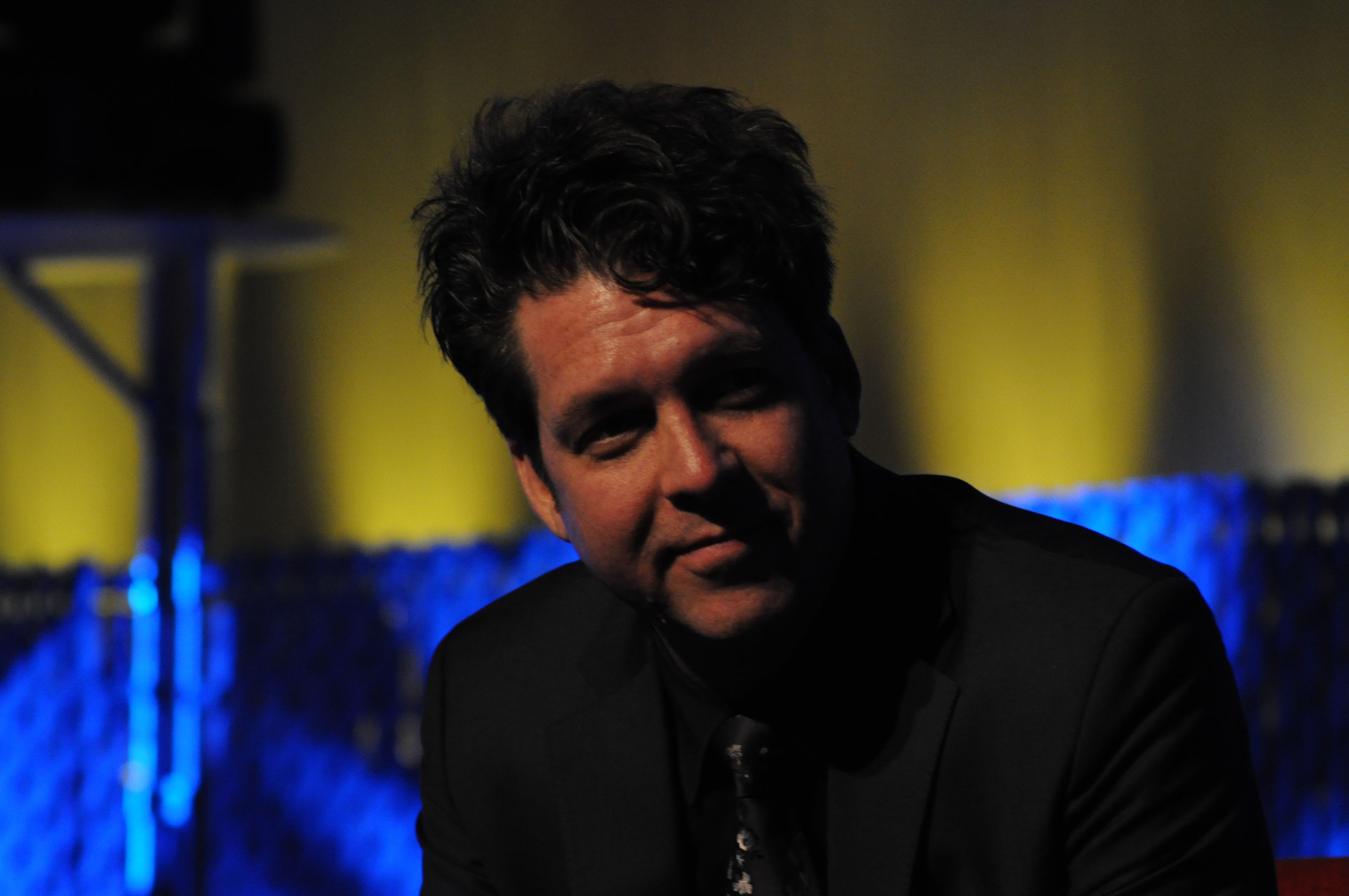 Joe Henry on the keynote panel of the 2010 Pop Conference, EMPSFM, Seattle, Washington.